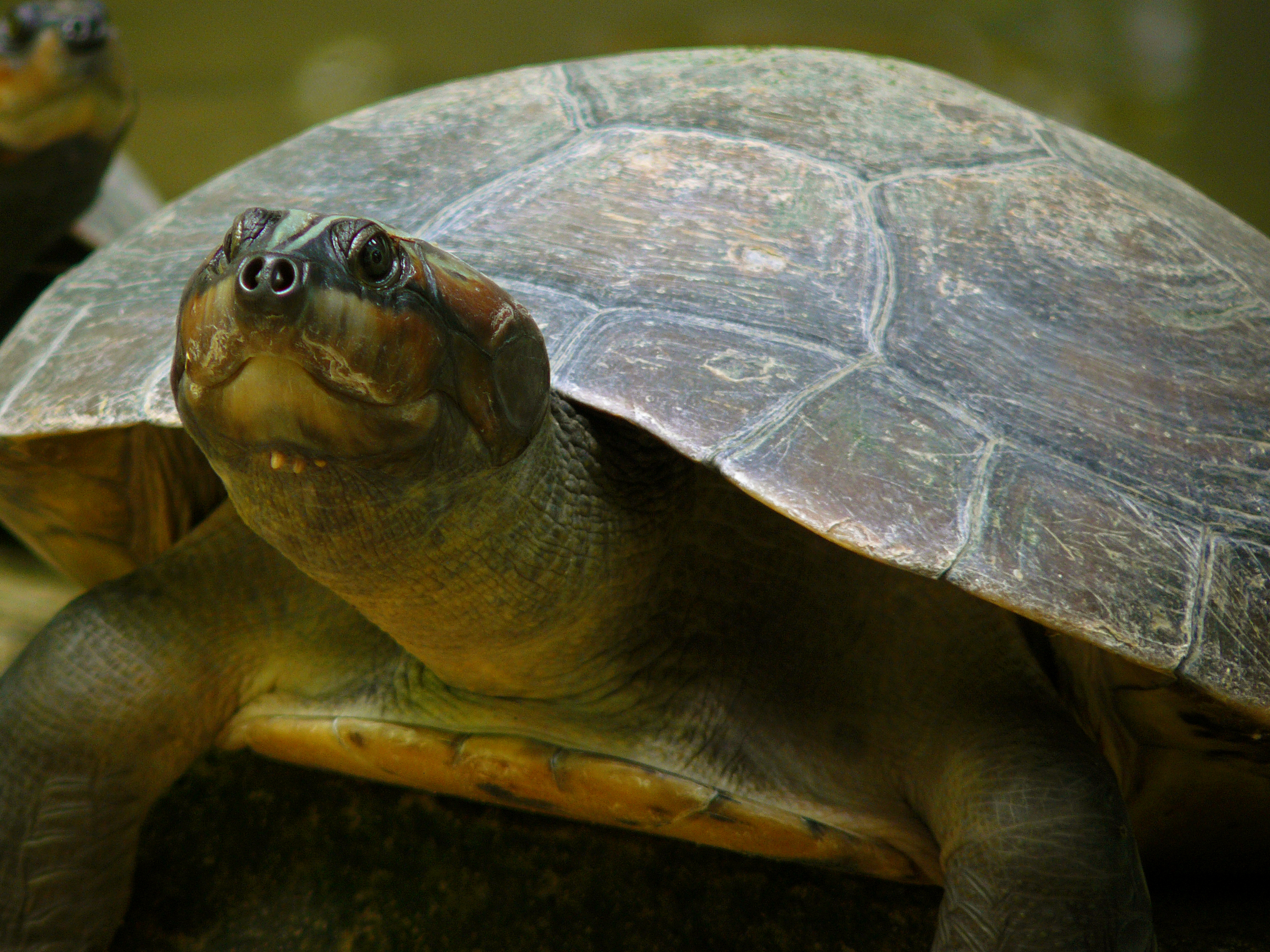 Giant River Turtle (Podocnemis expansa). Local: National Institute of Amazonian Research, Amazonas, Brazil.